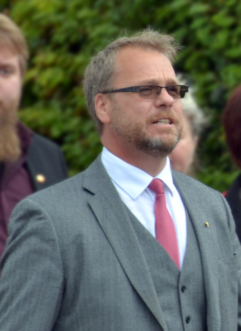 Peter Jeppsson, member of the Riksdag for the Social Democratic Party.